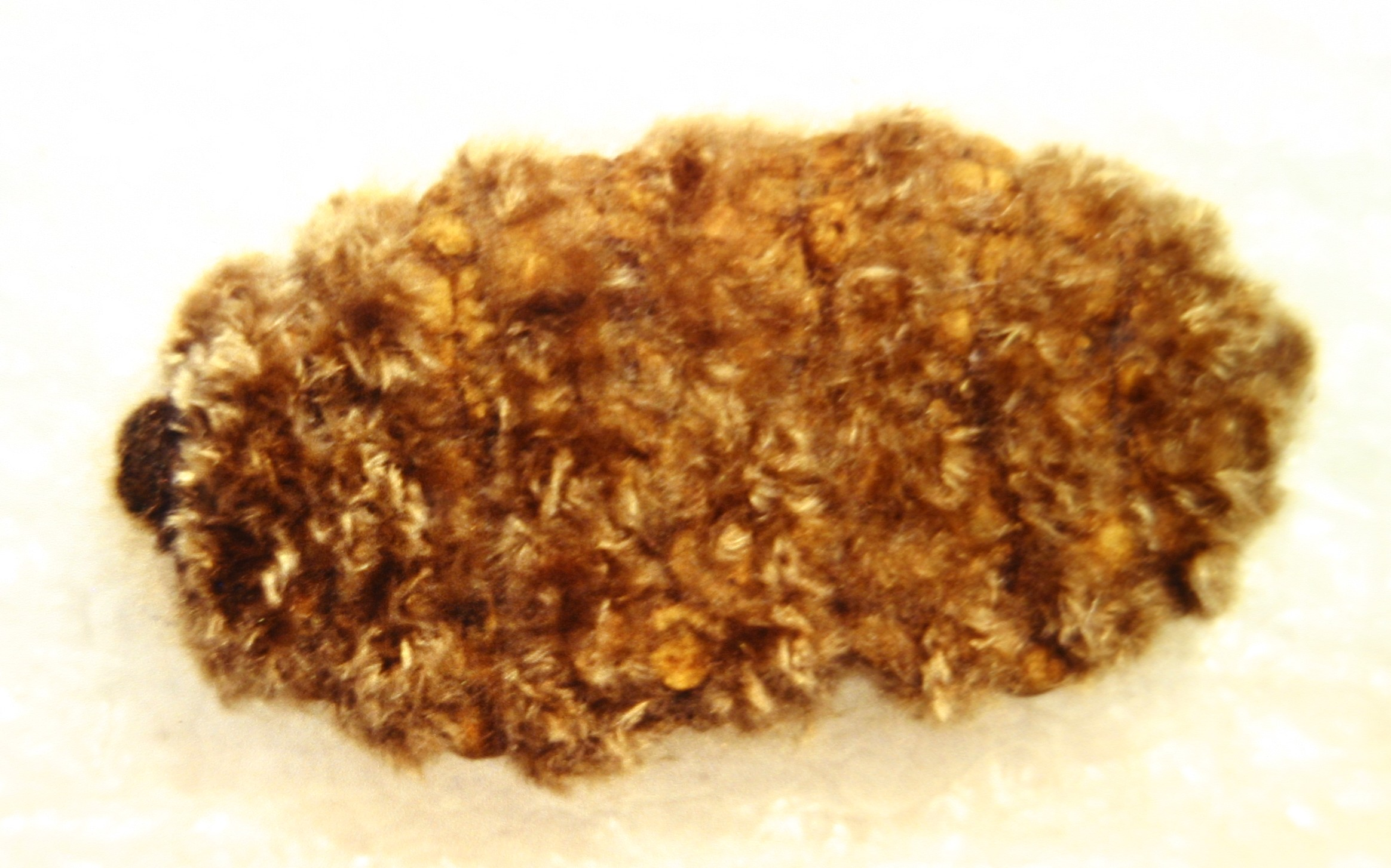 female - Saline di Trapani - Sicily